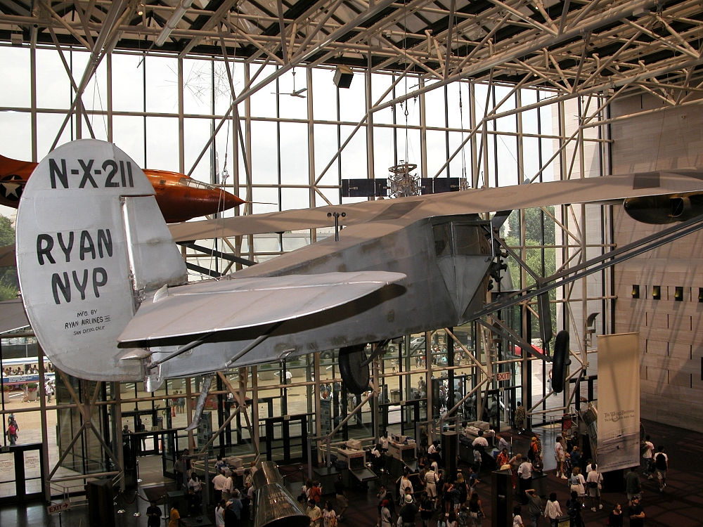 National Air and Space Museum, Spirit of St. Louis, Washington D.C., USA